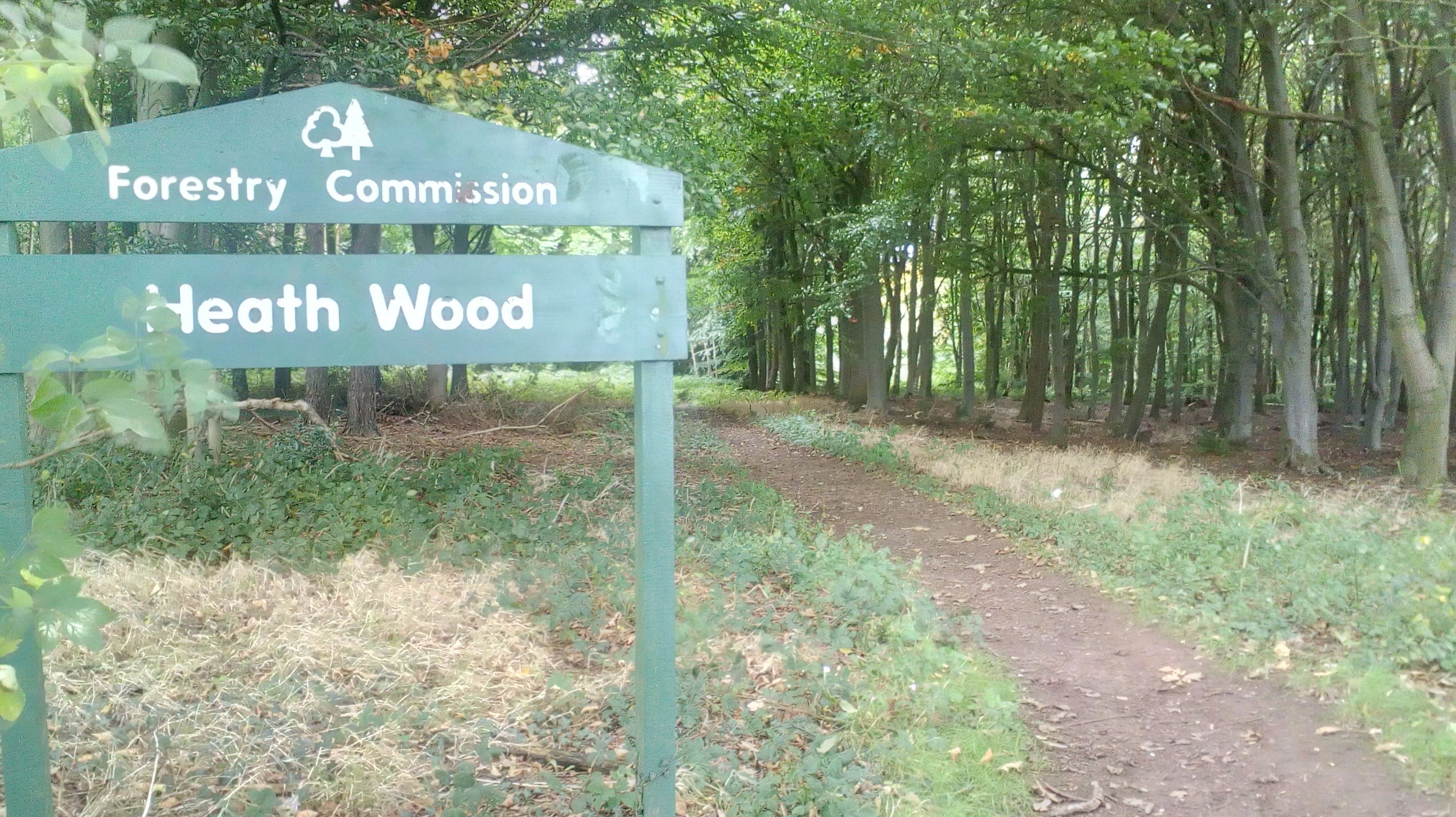 near Ingleby Derbyshire